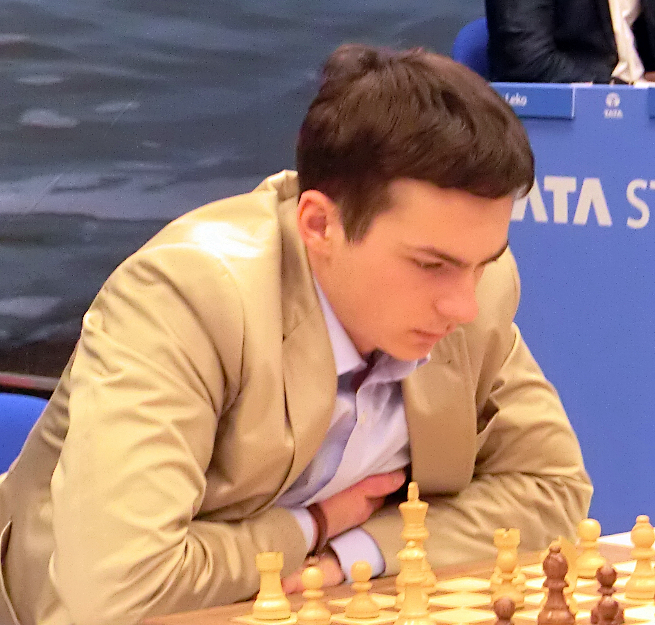 Alexander Ipatov, chess grandmaster